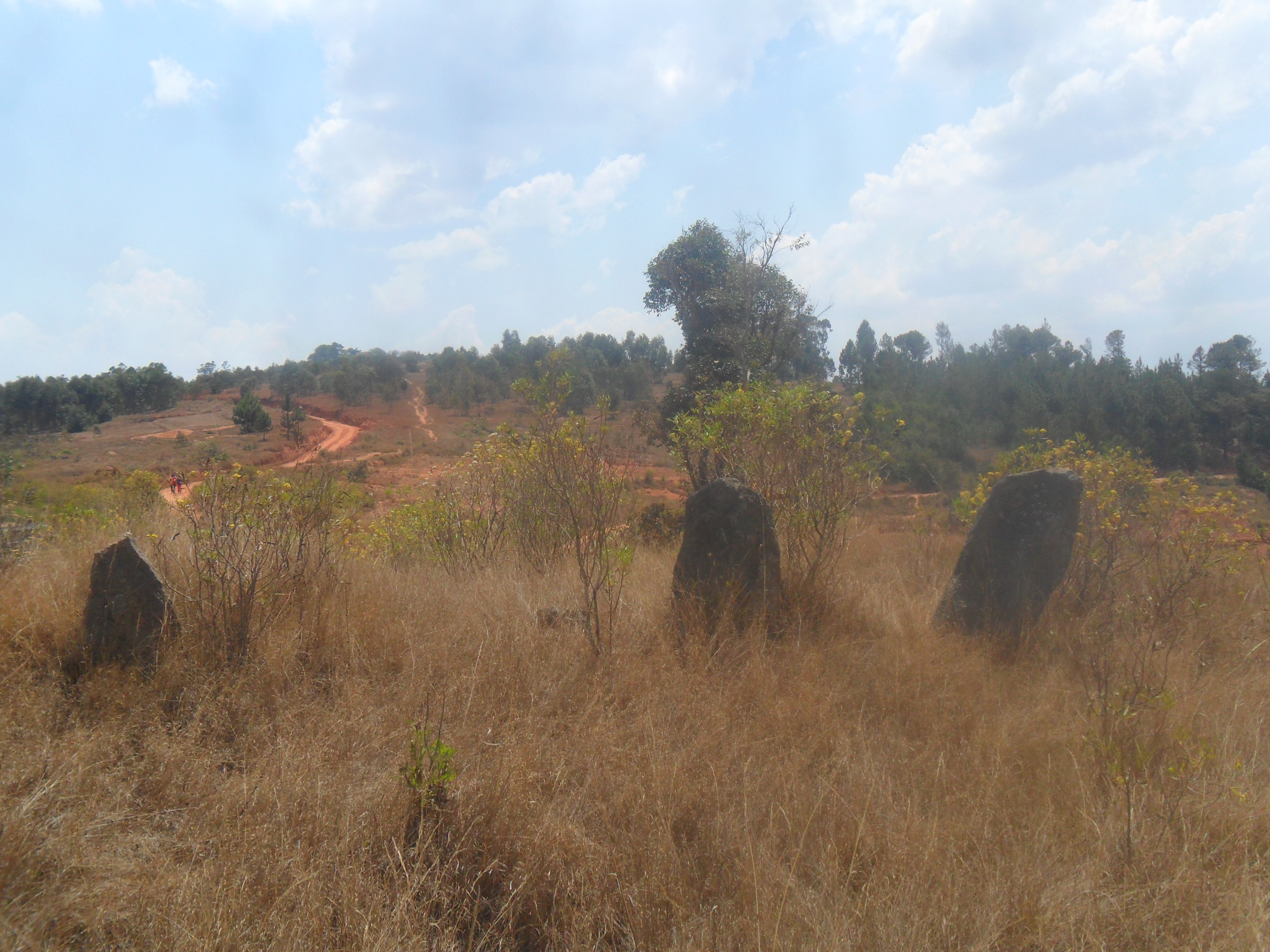 Ravoromanga's grave, wife of king Ralambo at Anjanakarivo Andrefana Ambohidrabiby Antananarivo Madagascar